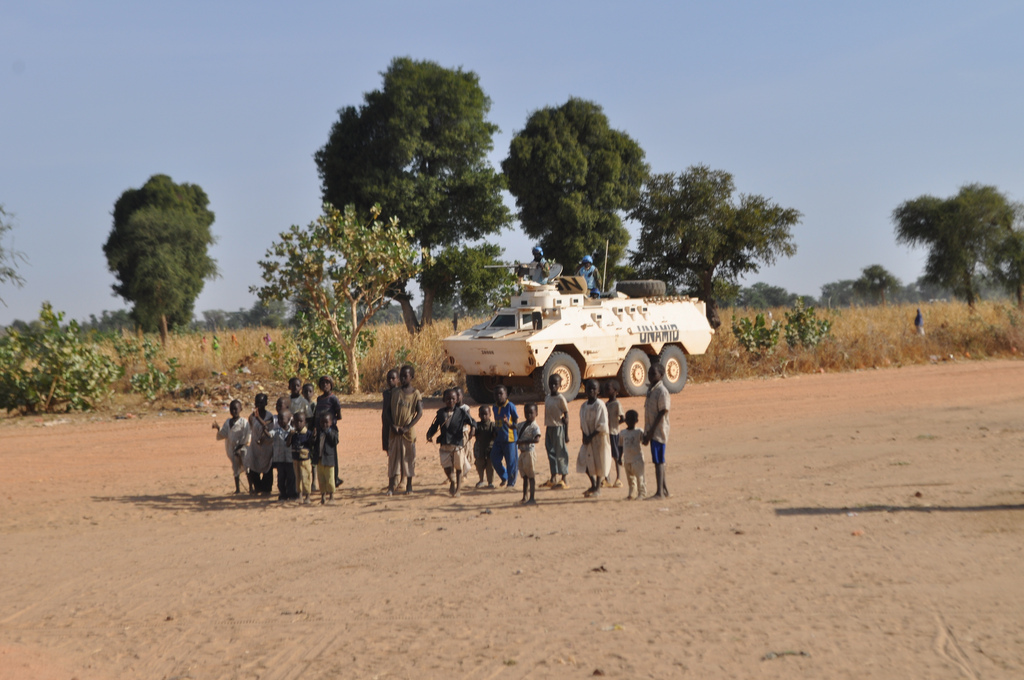 Children at an IDP camp in El Geneina, West Darfur, stand with a UNAMID tank in the background.